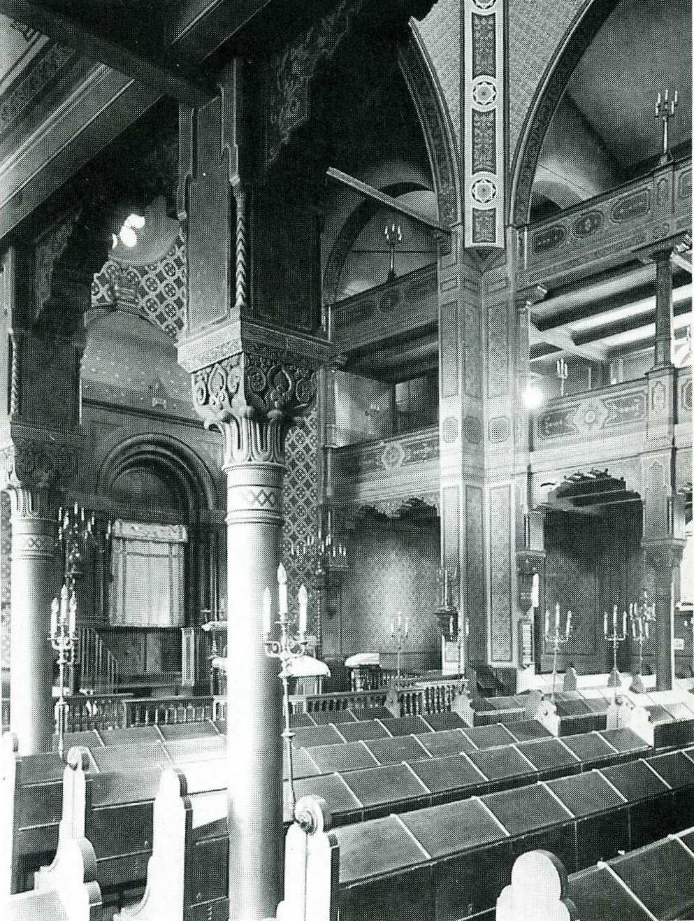 Synagoge Dresden innen